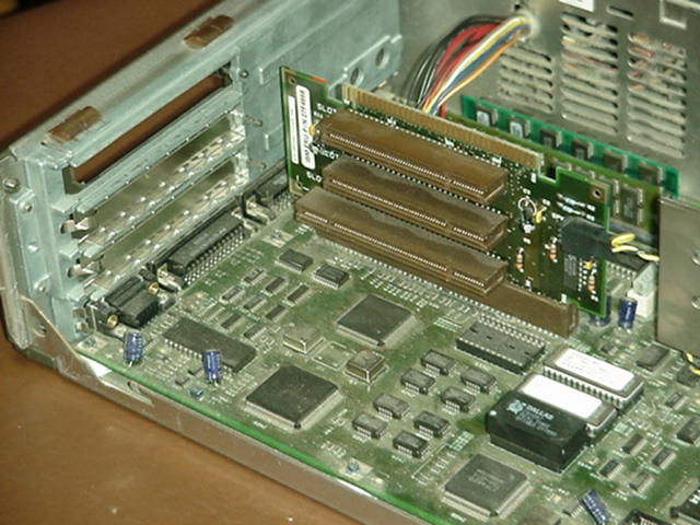 Internal design of the IBM PS/2 Model 55 SX, showing the Micro-Channel Architecture slot riser card. The edge connector across the top supplied power and data to the single internal hard drive that a PS/2 could accept. It is interesting to note that the hard drive appears to connect straight to the MCA bus without any interceding drive controller electronics. IBM called this Direct Bus Attachment (DBA), and most common was DBA ESDI that emulated a PS/2 ESDI controller.